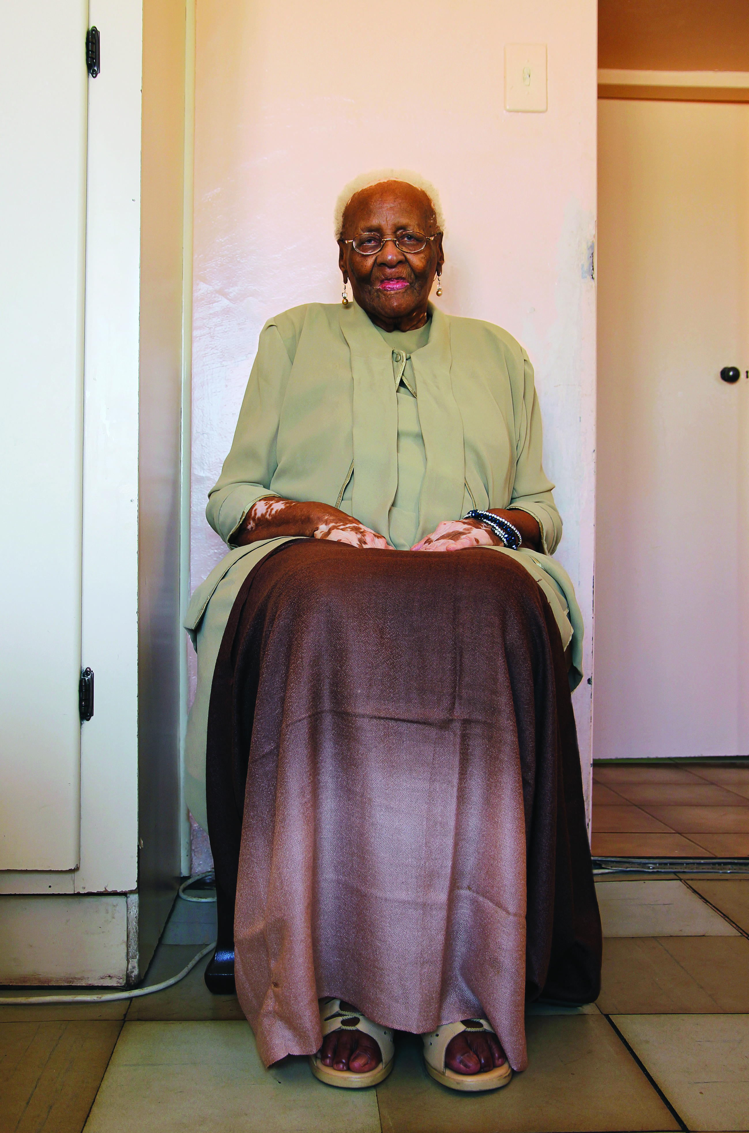 All Our Mothers is an ongoing series of photo portraits of women dating from 1983. Some of the women, like Amina Cachalia, were photographed first in 1984, then nearly 30 years later, in 2012.